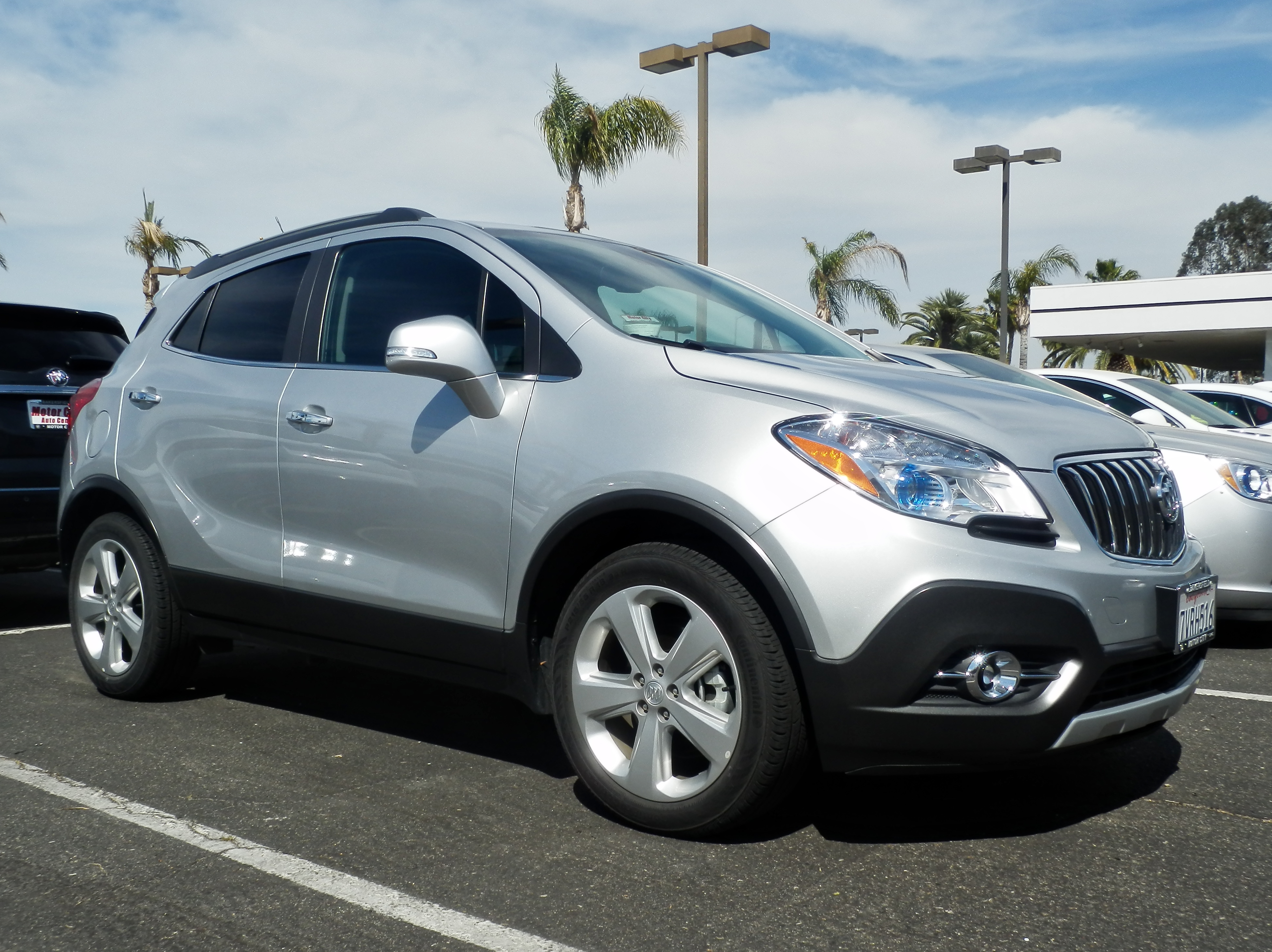 Buick Encore in Bakersfield